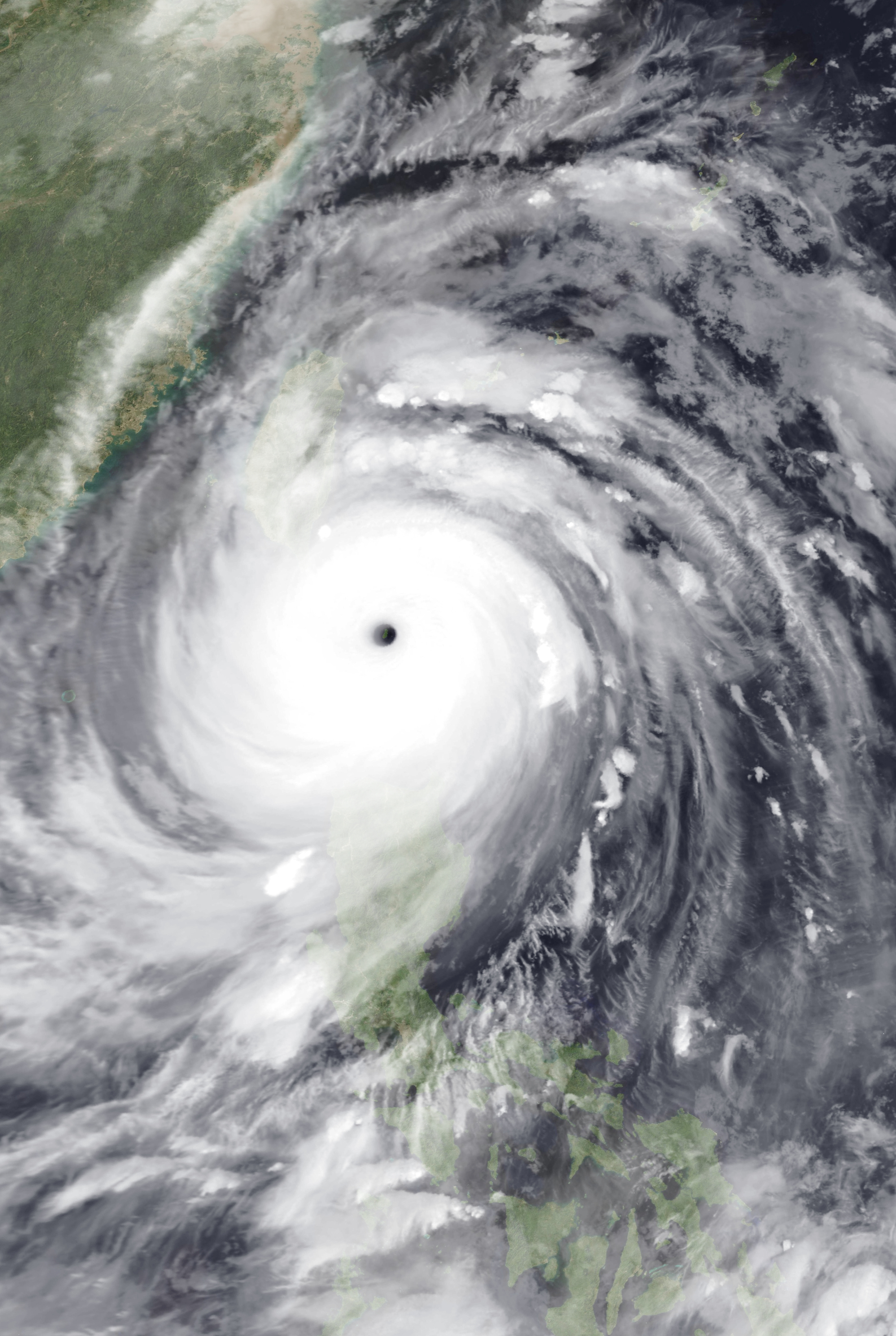 Infrared satellite image of Typhoon Meranti on 13 September 2016 as seen by the Aqua satellite.